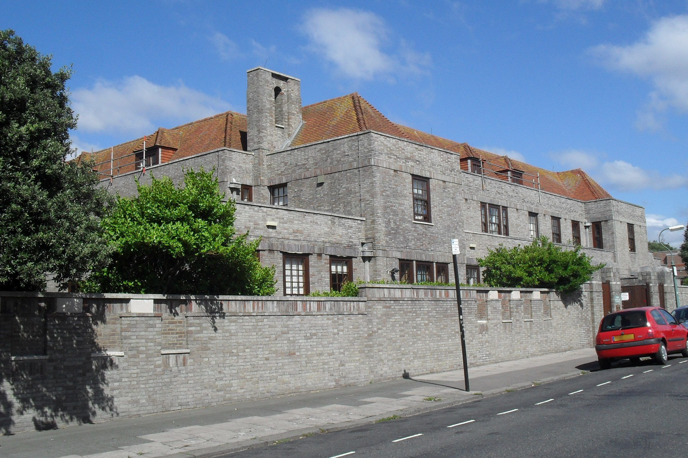 Barford Court, Princes Crescent, Hove, City of Brighton and Hove, East Sussex. Built of specially made and imported Italian brick by cinema architect Robert Cromie as a private house for iron industry magnate Ian Stuart Millar. The Neo-Georgian building dates from 1934 and has an Art Deco interior. It is now a care home. Listed at Grade II by English Heritage (IoE Code 365555)